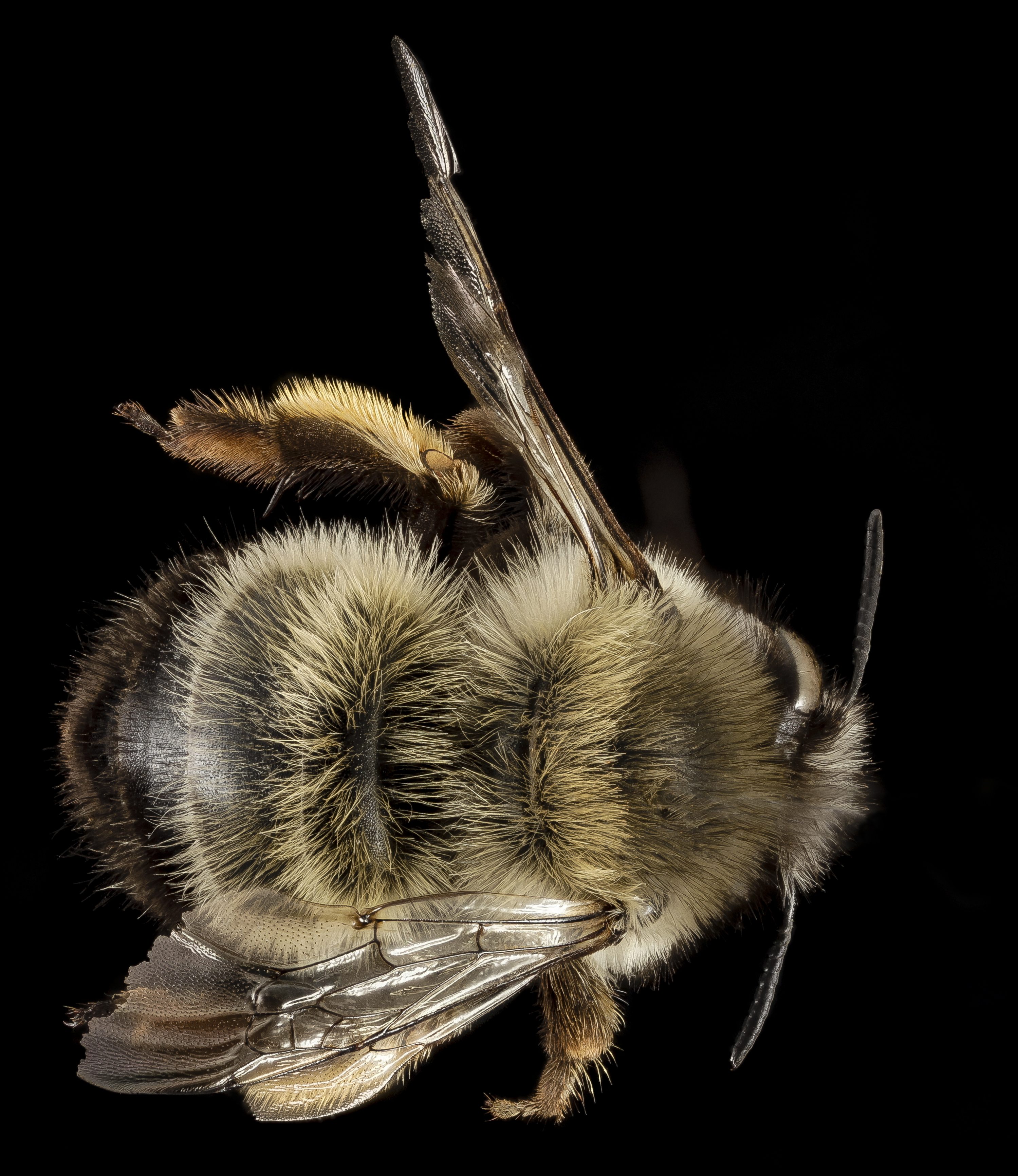 An uncommon bee from The Eastern part of the Mediterranean basin.This particular specimen was collected by Jelle Devalez who hunts bees in the Aegean islands of Greece.